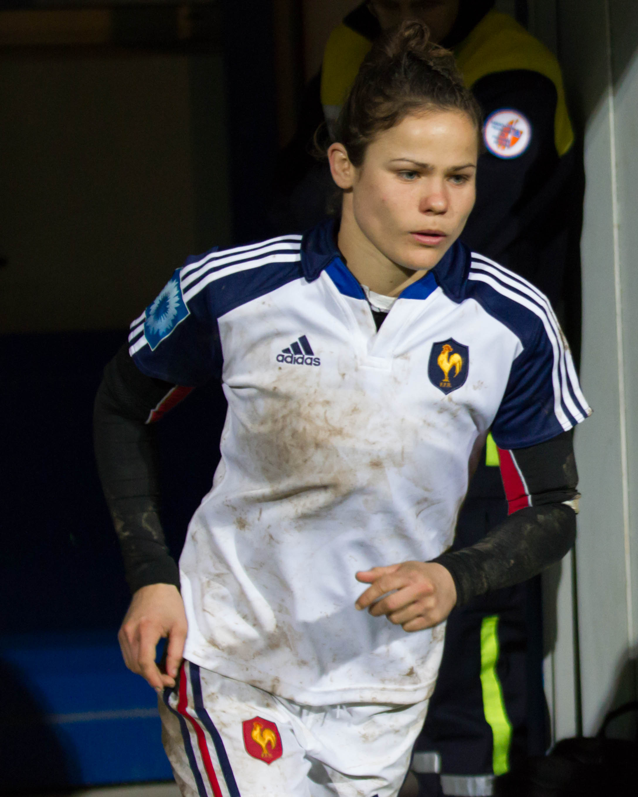 2014 Women's Six Nations Championship — 9 February 2014, Stade Ernest Argeles. Match between: France women's national rugby union team — Italy women's national rugby union team